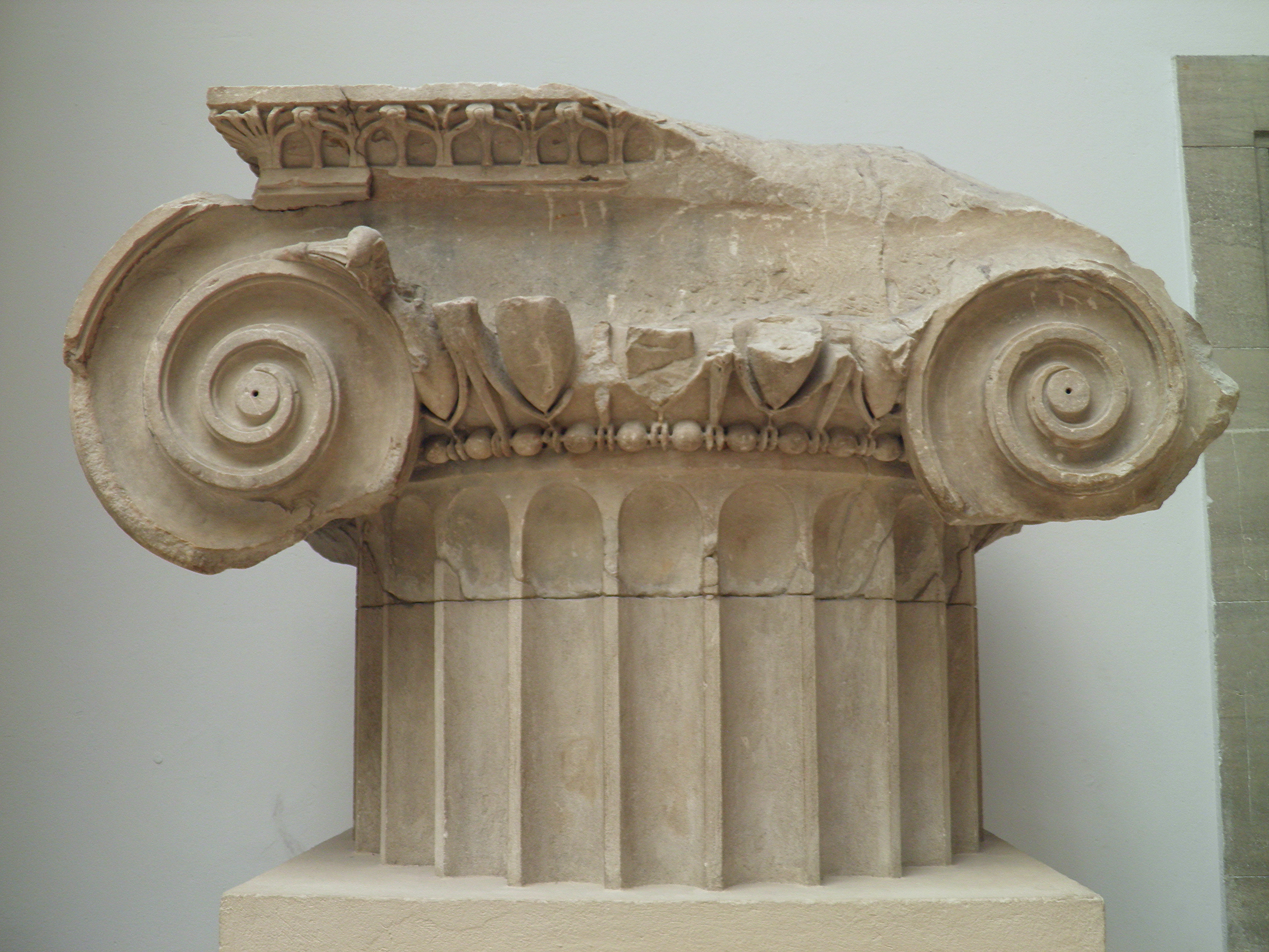 Ionic column of the cella wall of the Temple of Artemis Leukophryene at Magnesia on the Maeander, 2nd century BC, Pergamon Museum, Berlin.